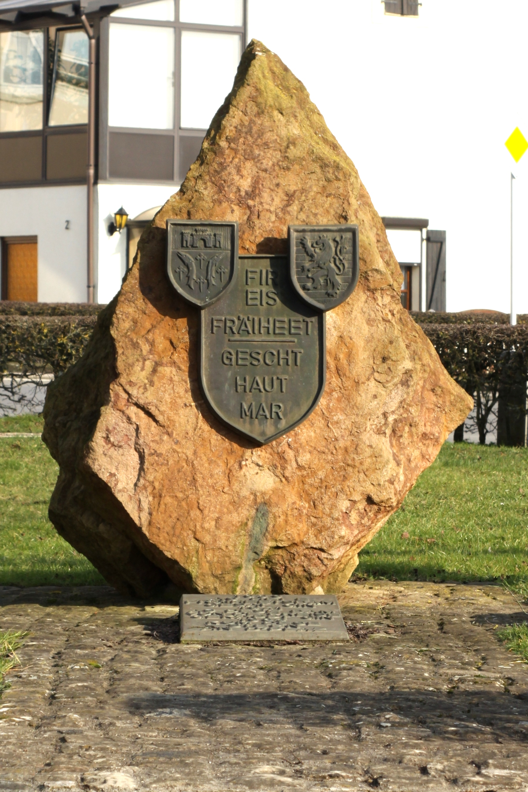 WWII Monument in Clemency (Luxembourg)